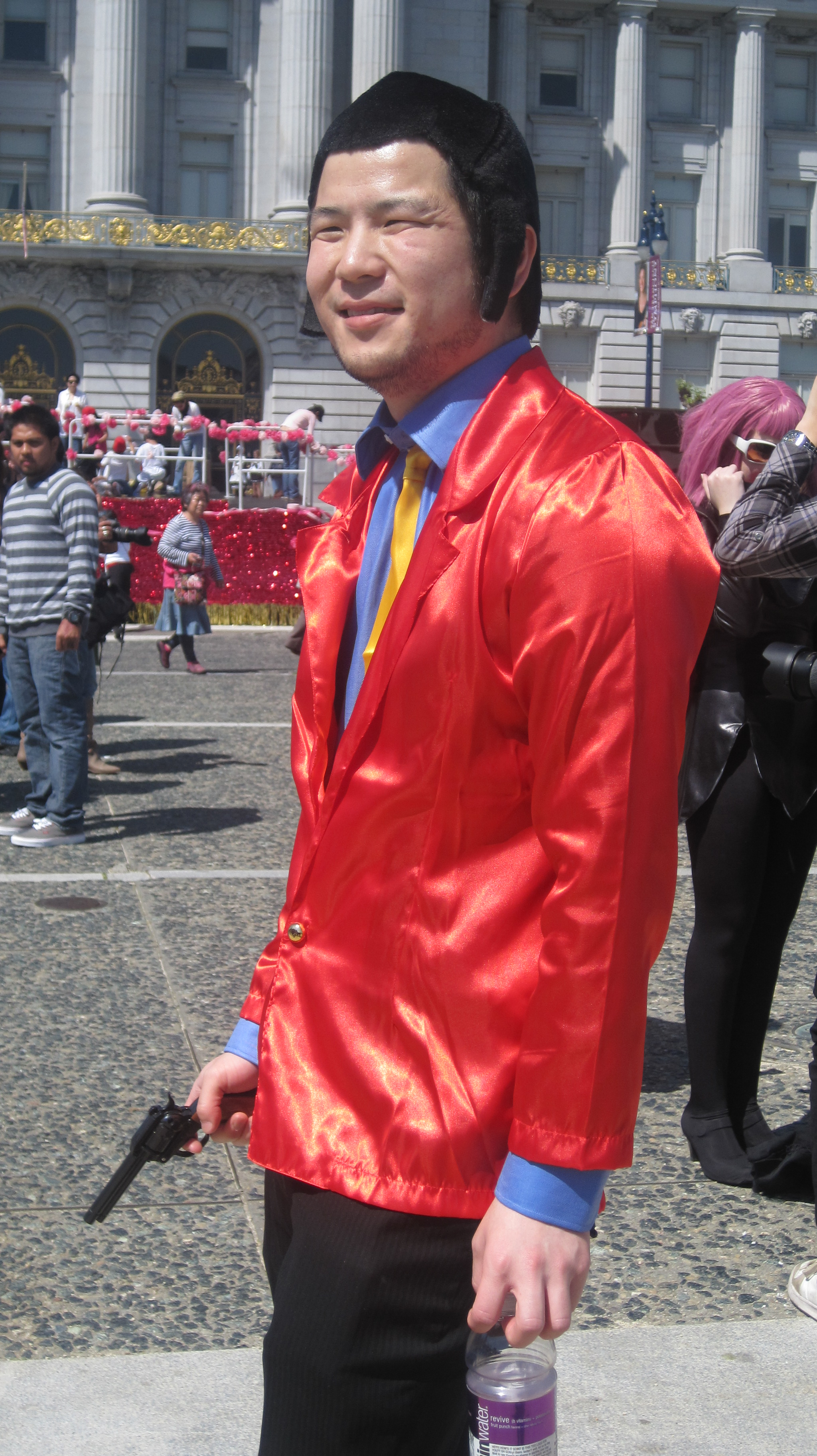 A cosplayer portraying Arsène Lupin III from Lupin III at the Northern California Cherry Blossom Festival.